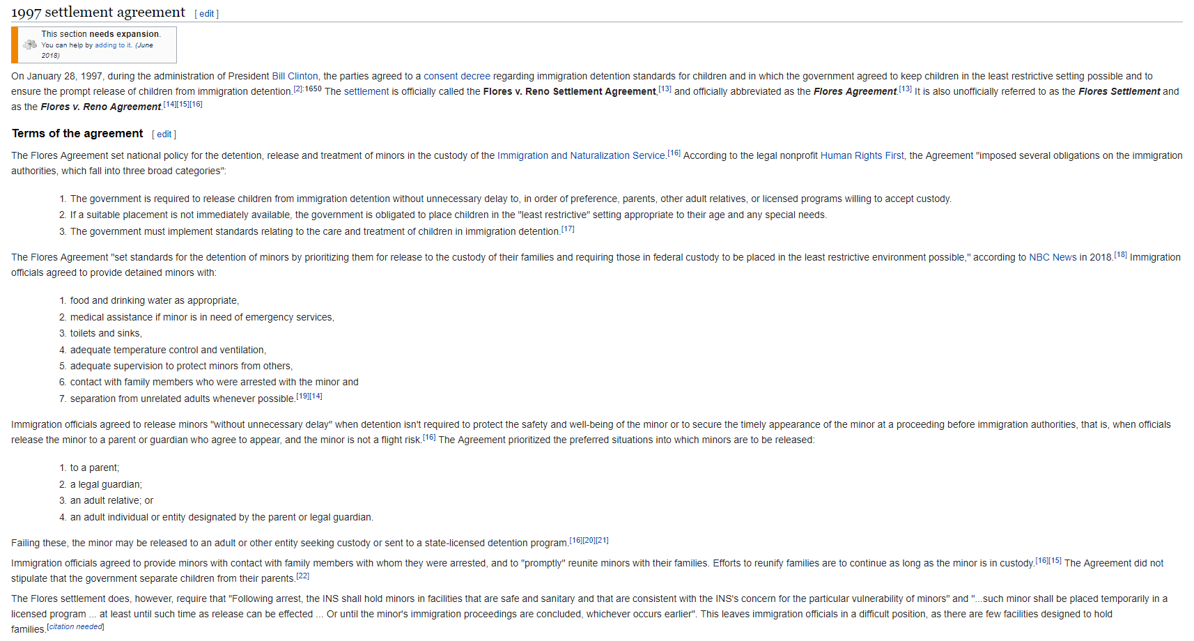 A screenshot of the Terms of Agreement section from the Reno v. Flores Wikipedia article